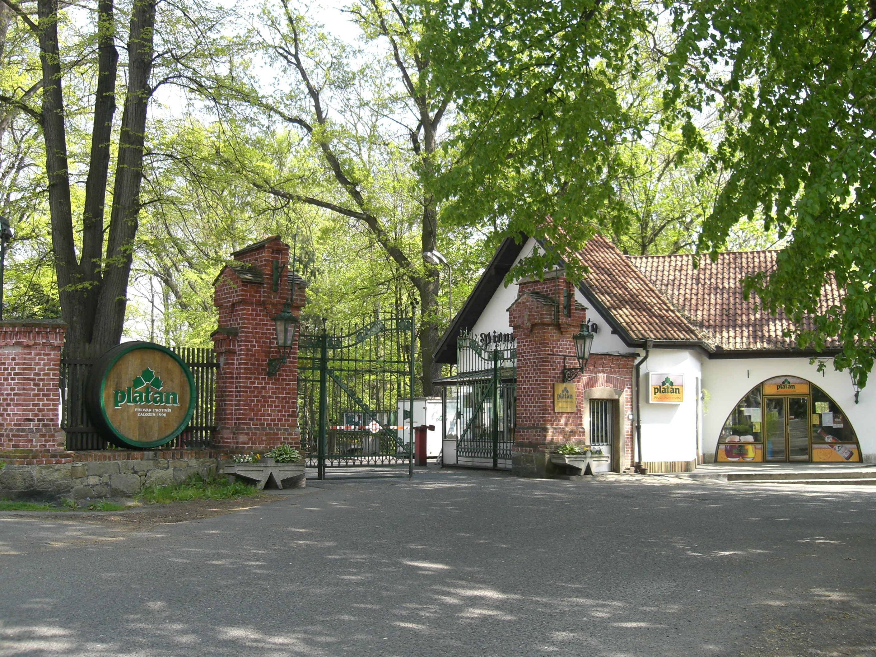 Platan brewery in Protivín, Písek district, Czech Republic. Main gate.